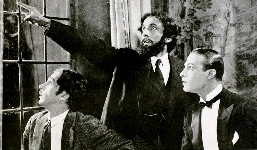 Still from the American film The Four Horsemen of the Apocalypse (1921) with Bowditch M. Turner, Nigel De Brulier, and Rudolph Valentino, on page 187 of Peter Milne, Motion Picture Directing; The Facts and Theories of the Newest Art (1922). This still was the basis for a movie poster.